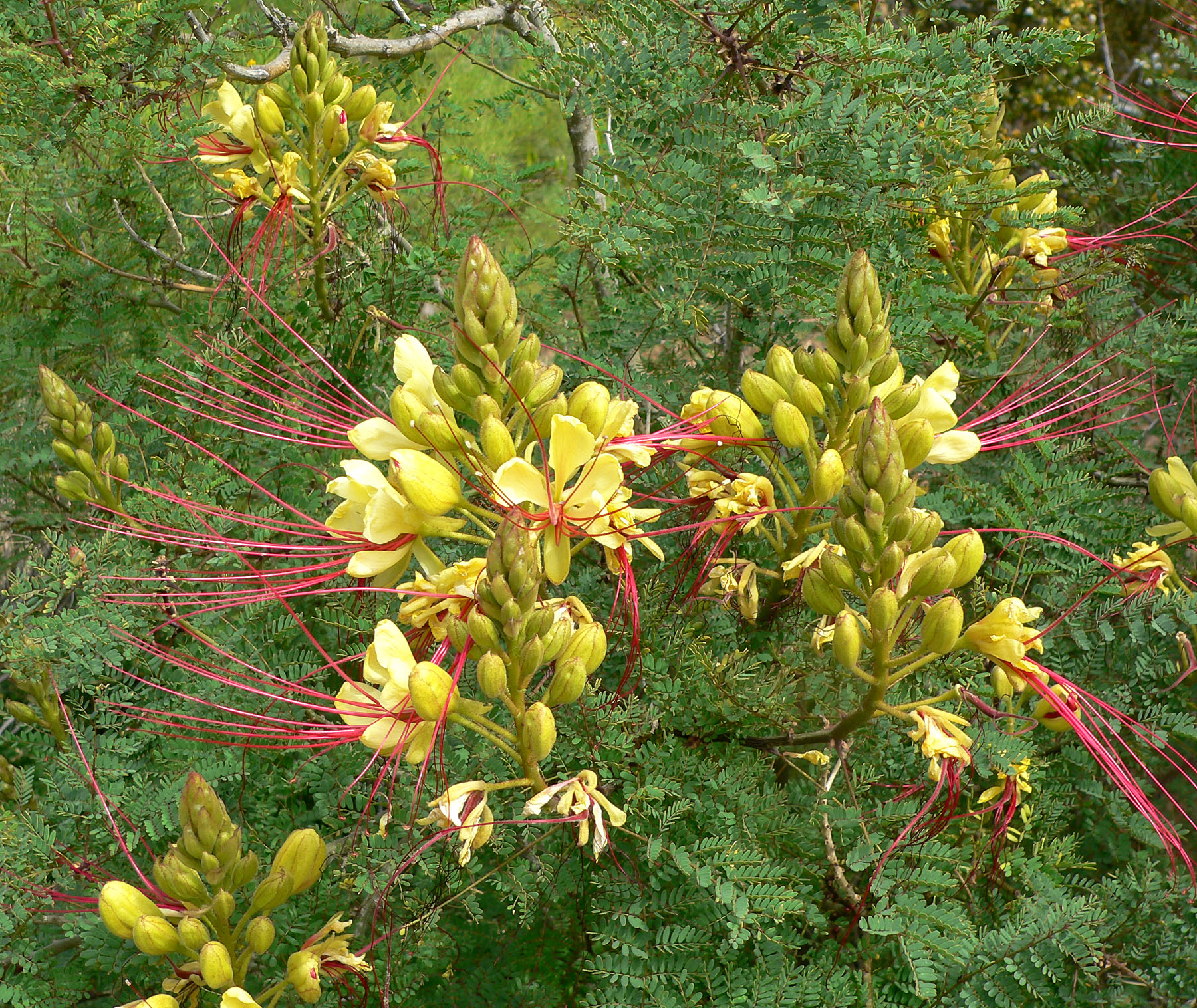 Photo of Caesalpinia gilliesii in cultivation in Las Vegas, Nevada